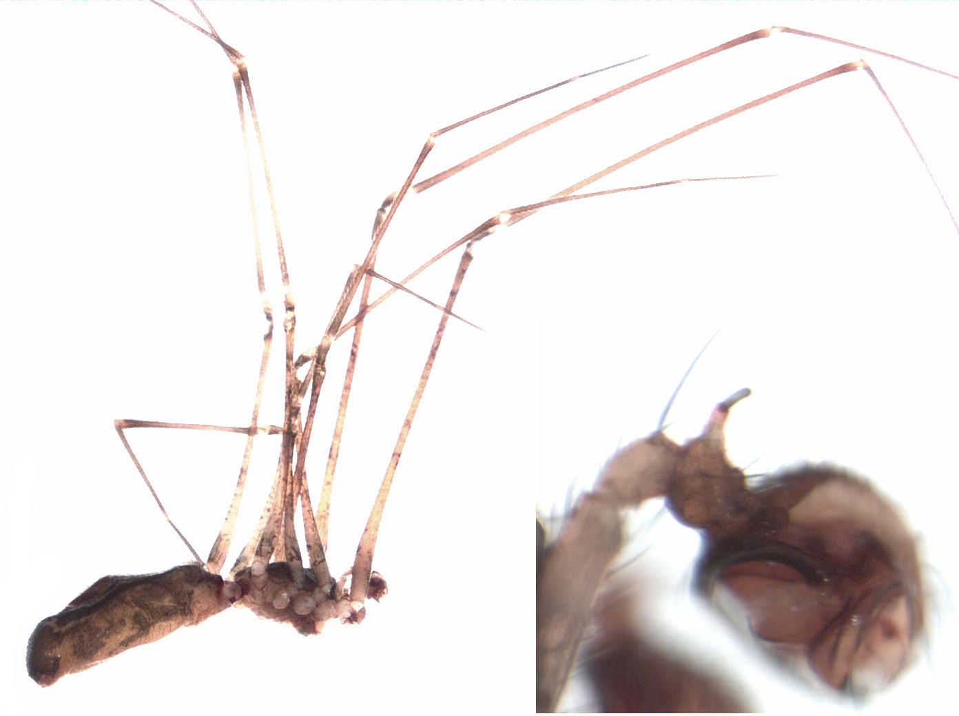 adult male Meringa sp.